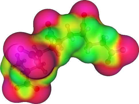 COSMO Surface of a Pentaacrylateion